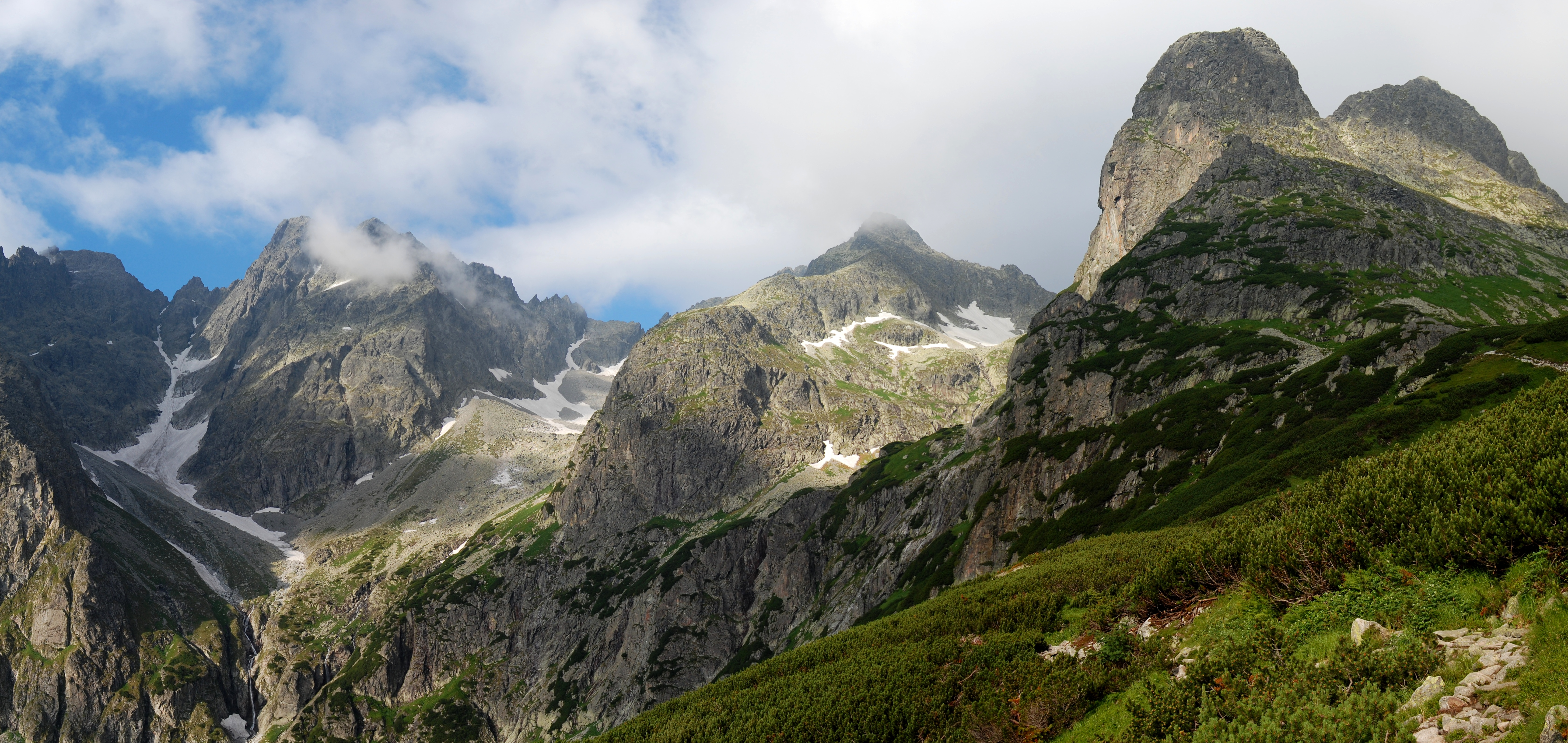 Jastrabia veža (on the right) as seen from dolina Zeleného plesa valley, High Tatras, Slovakia. Shrubs are Pinus mugo.